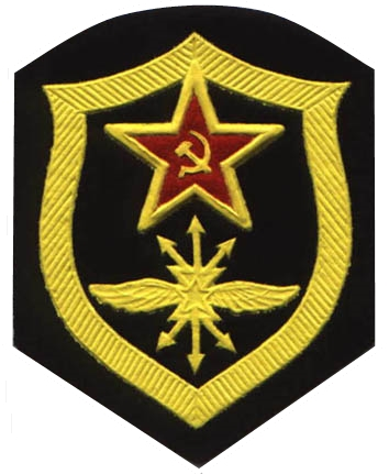 Emblem of the soviet armed forces 1960 to 1994, Soviet Army (military branches, service branches or armed services), sleeve badge (appliquéd) left hand upper arm (dress uniform/ parade uniform) to be used for the ranks OR1 to 8, and WO1 to 2, here: – ““Communications troops and Radar support troops”, design 1985.